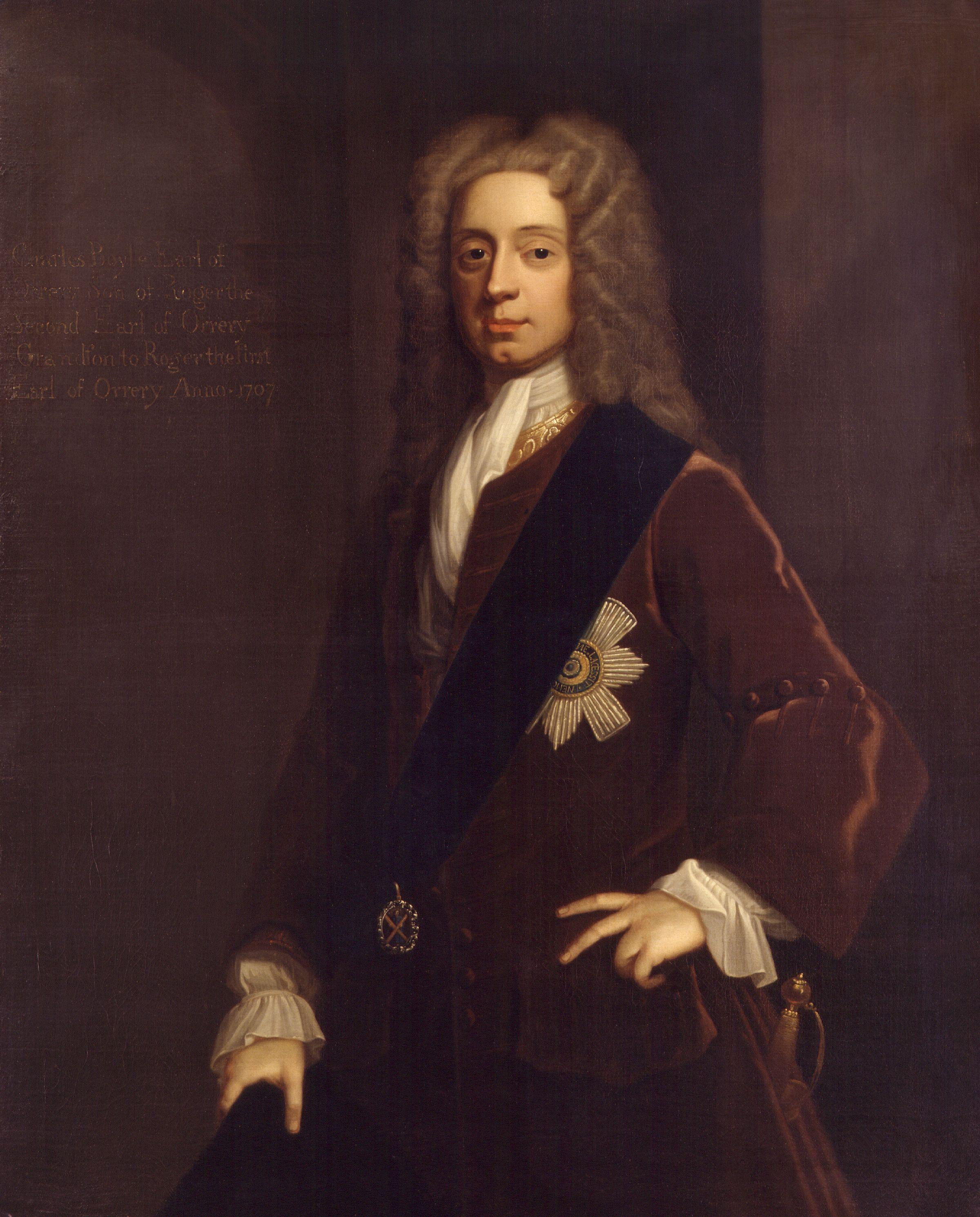 All images in this batch have been confirmed as author died before 1939 according to the official death date listed by the NPG.